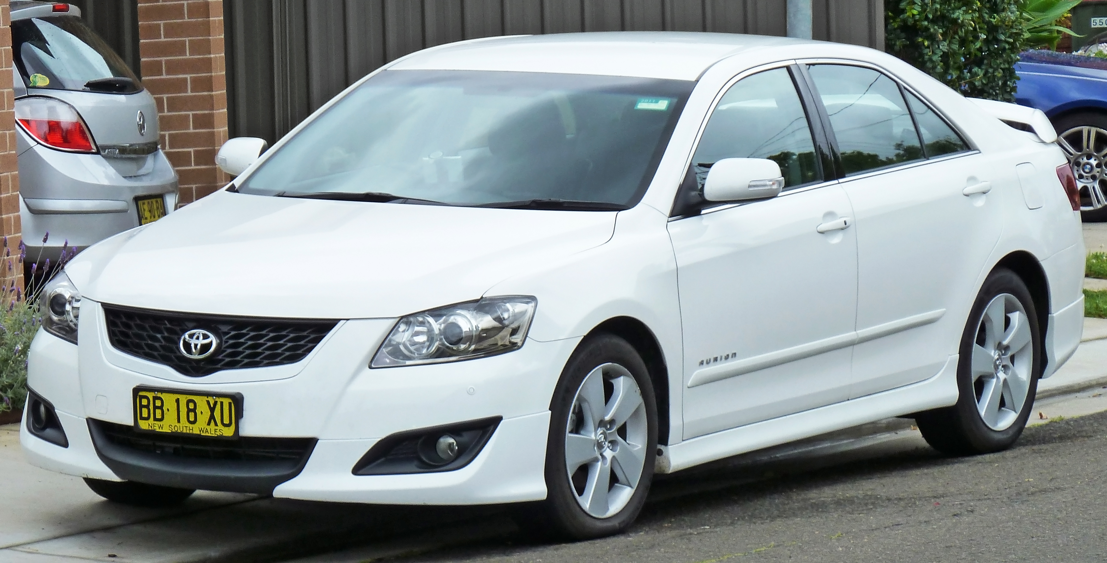 2006–2009 Toyota Aurion (GSV40R) Sportivo ZR6 sedan. Photographed in Sans Souci, New South Wales, Australia.